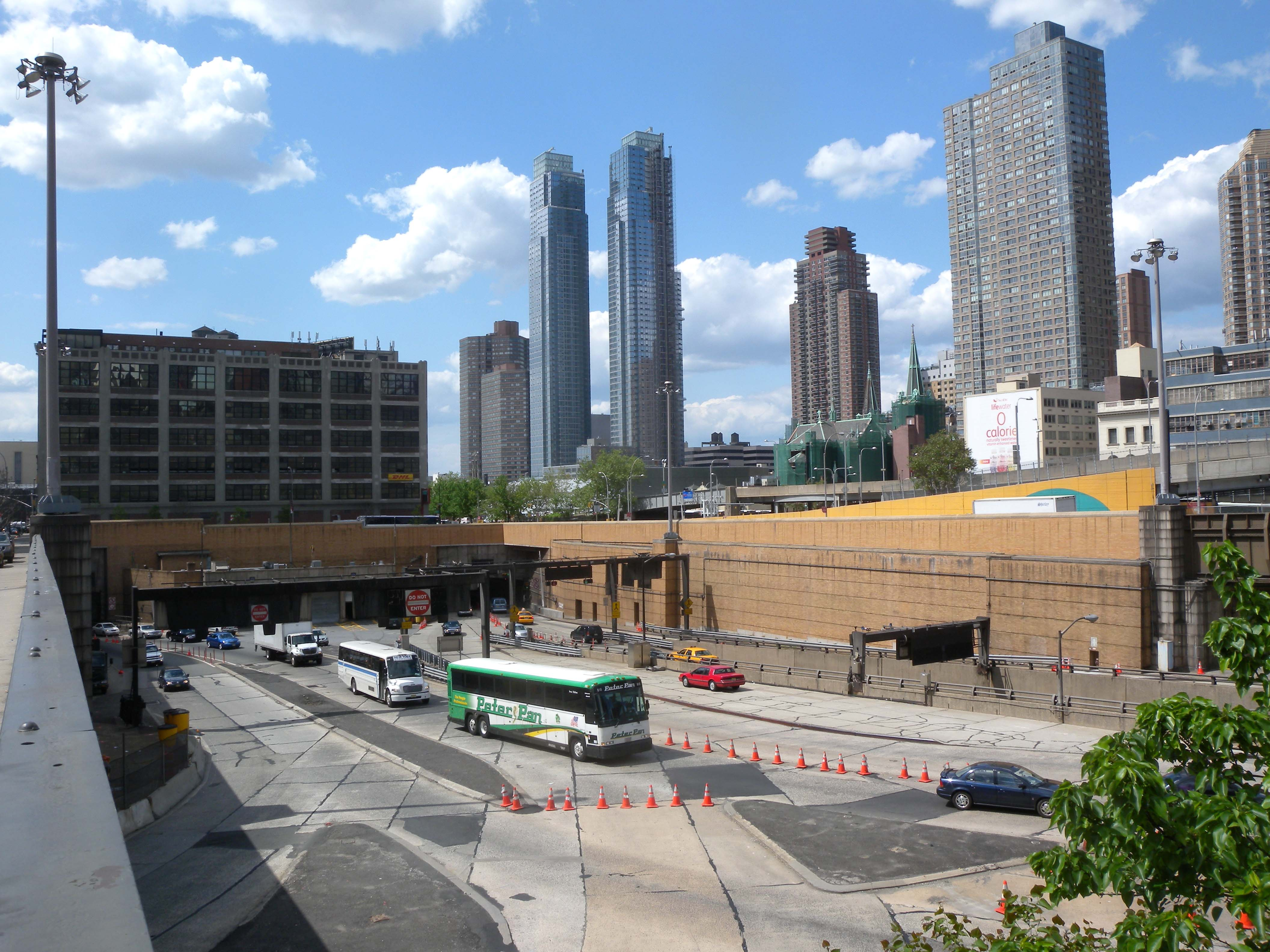 Looking northwest from 38th street overpass, west of 9th Avenue, at Lincoln Tunnel Manhattan portal on a mostly sunny midday.